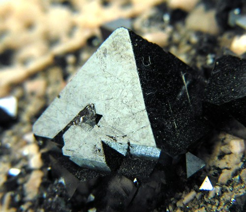 Magnetite Locality: Cerro Huañaquino, Potosí Department, Bolivia (Locality at ) Size: 8.0 x 4.8 x 2.7 cm. Typically the Magnetite specimens from this locality are closely grown together, but this piece has great isolation between the crystals. These are also some of the finest quality crystals I’ve seen from this locality in a few years. The piece has excellent quality, good size, razor sharp, lustrous, black, metallic, "Alpine-type" octahedra associated with blocky, cream colored Feldspar crystals on matrix. The largest Magnetite crystal measures 1.2 cm. across, which is good size for the locality. This is one of the better quality specimens of this material that I’ve seen from this locality, and most of the crystals are undamaged. Keep in mind, that there are no other localities producing Magnetites of this quality today, and there are few localities in the world that have ever produced Magnetite like this. Though this species is well known to collectors, it is remarkably difficult to obtain such well crystallized, highly displayable cabinet-sized specimens as this one.